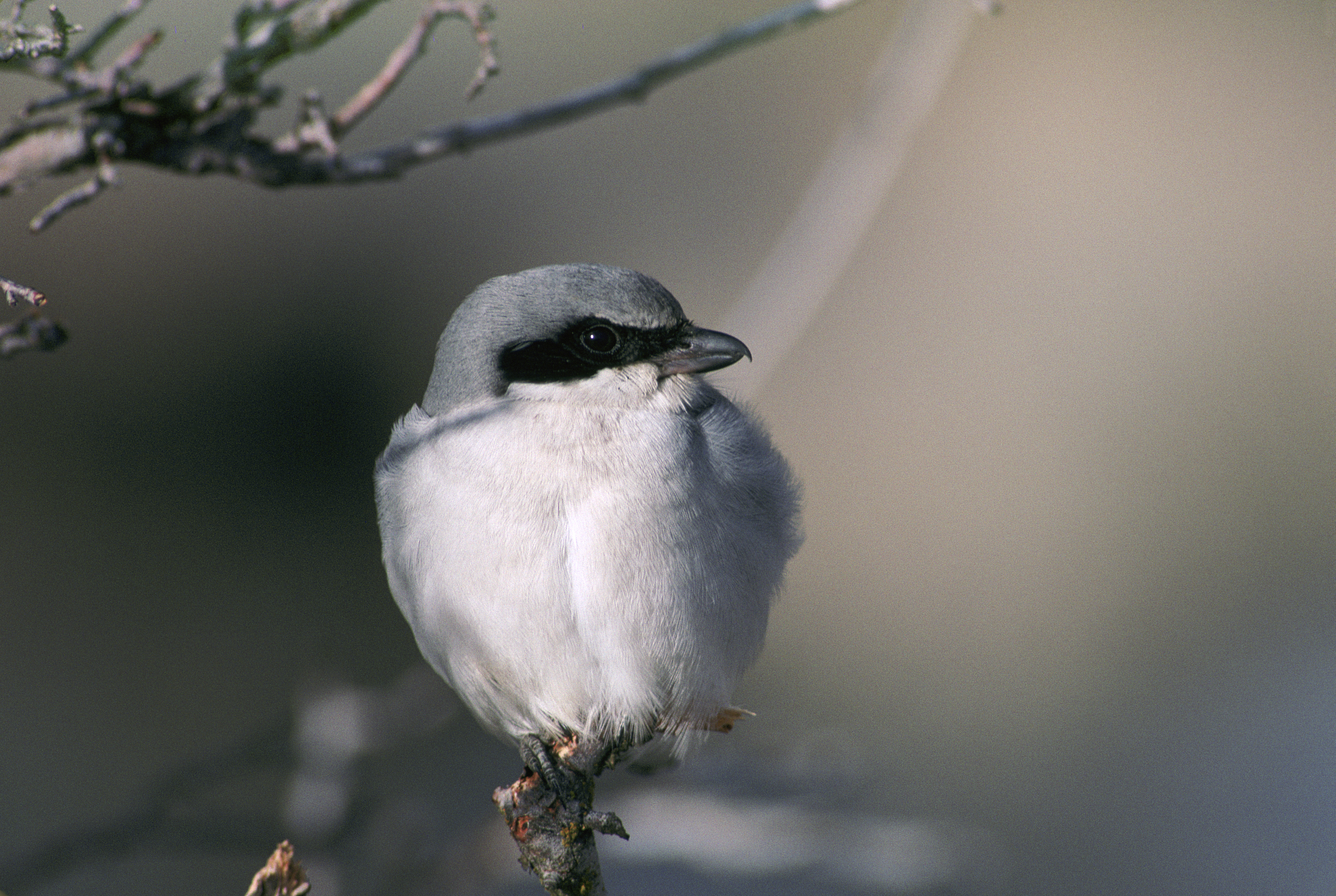 Loggerhead Shrike (Lanius ludovicianus) photographed in the Tule Lake National Wildlife Refuge